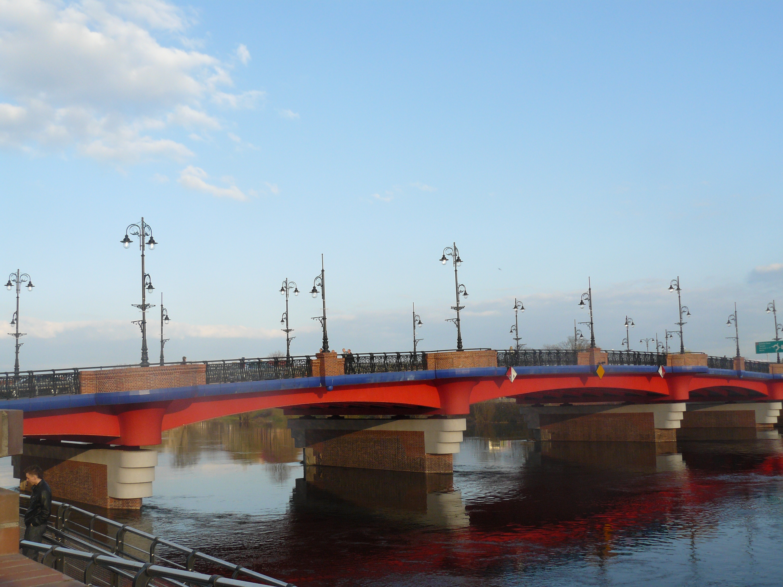 Most Staromiejski